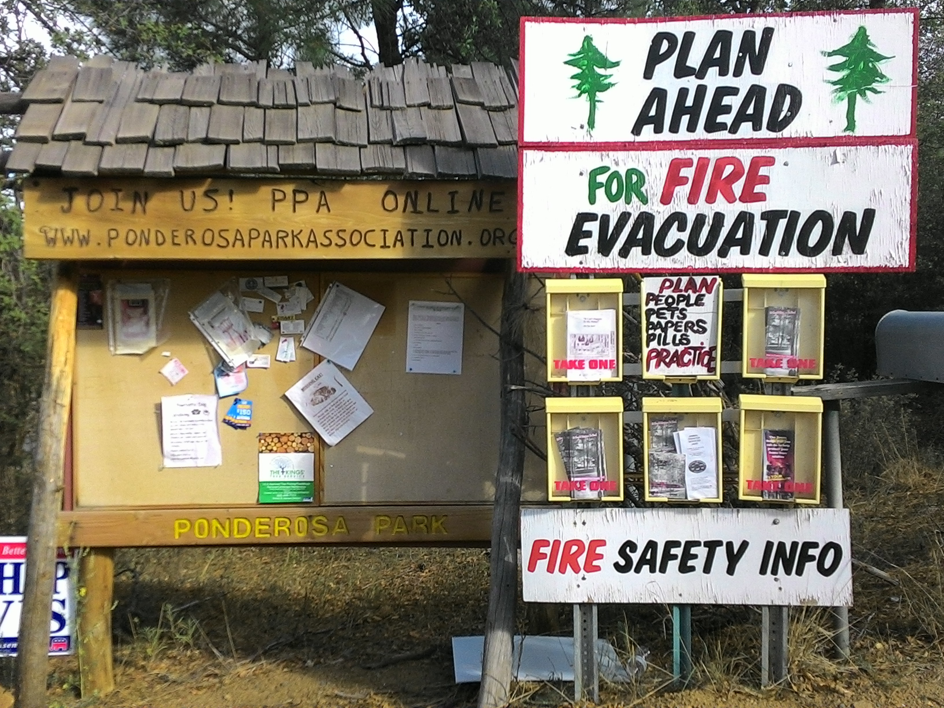 Ponderosa Park, Arizona community association signage